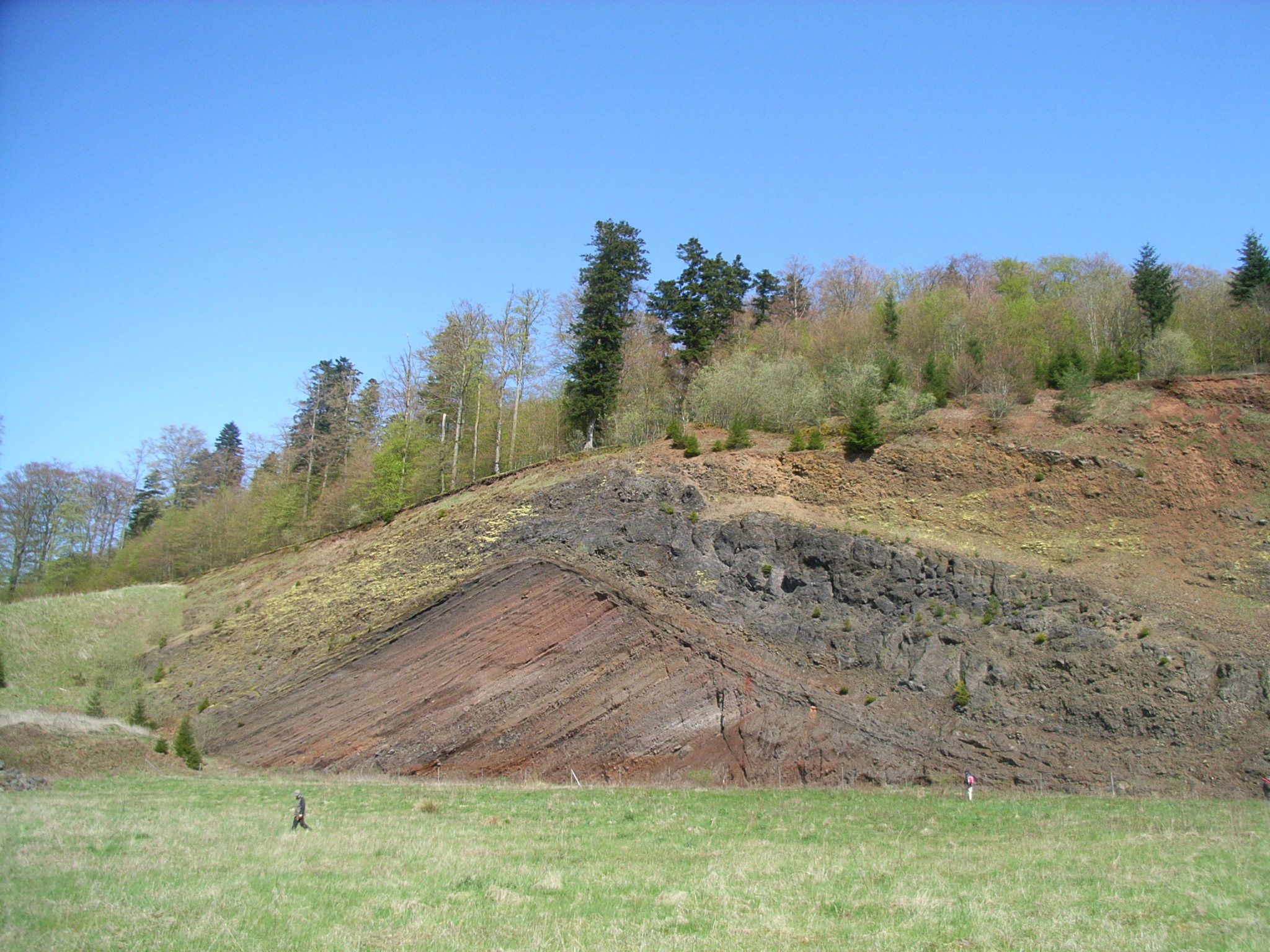 Rockeskyller Kopf, Germany. Section of volcanic cinder cone.